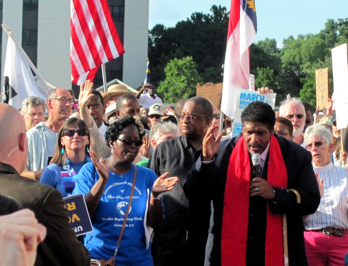 Rev. Dr. William Barber speaking at a Moral Monday rally